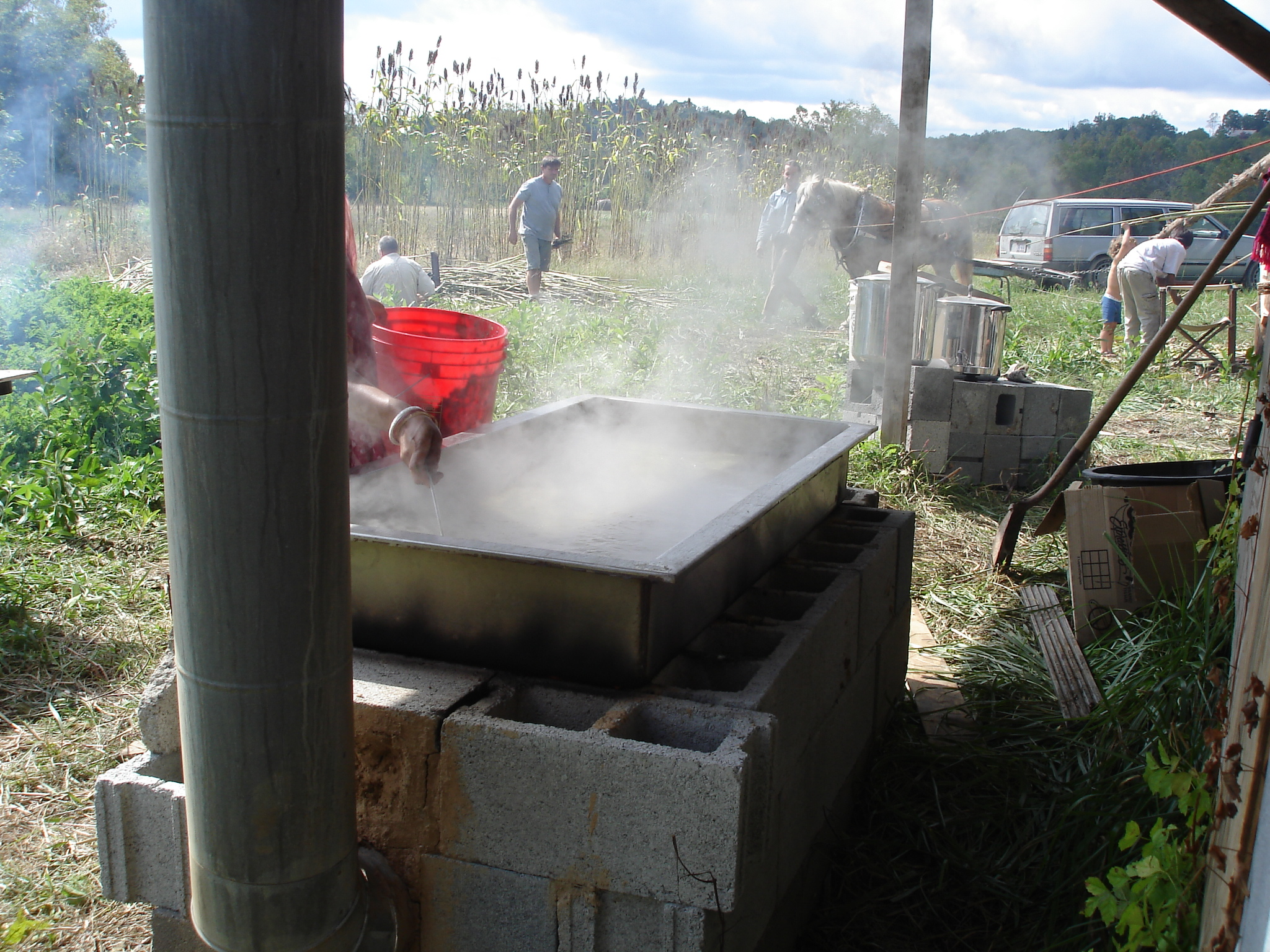 adding more cane juice over open fire, rural central North Carolina